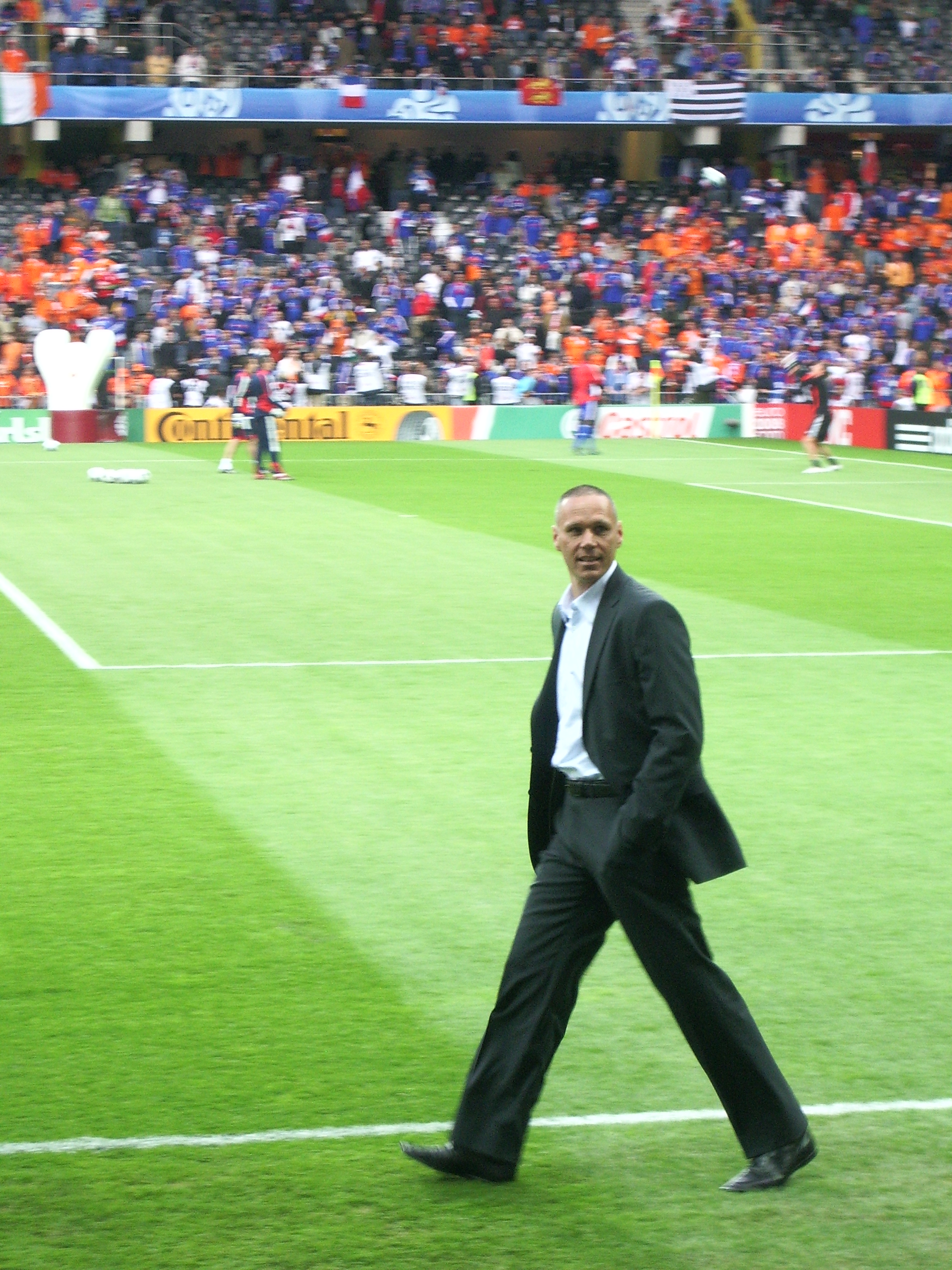 Marco van Basten - coach of the dutch soccer team - before the Euro 2008 game Holland - France in Bern on 13.06.2008